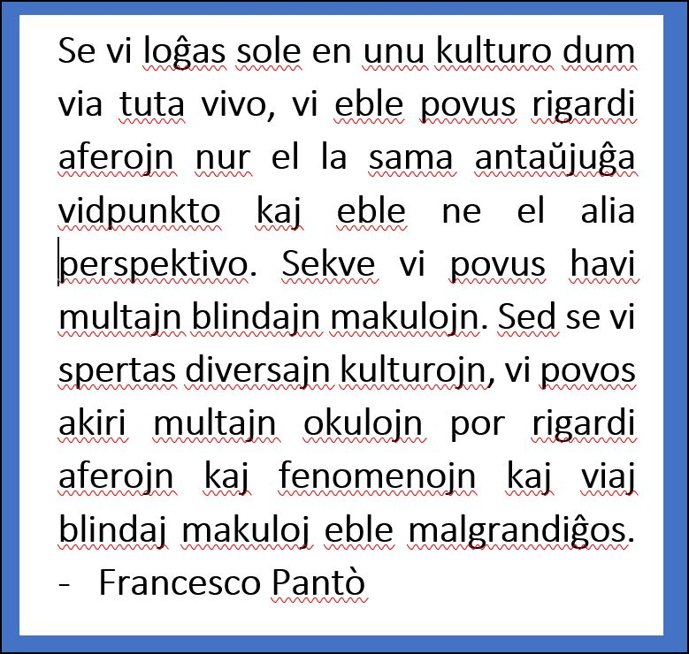 Text on 'interkultura edukado'